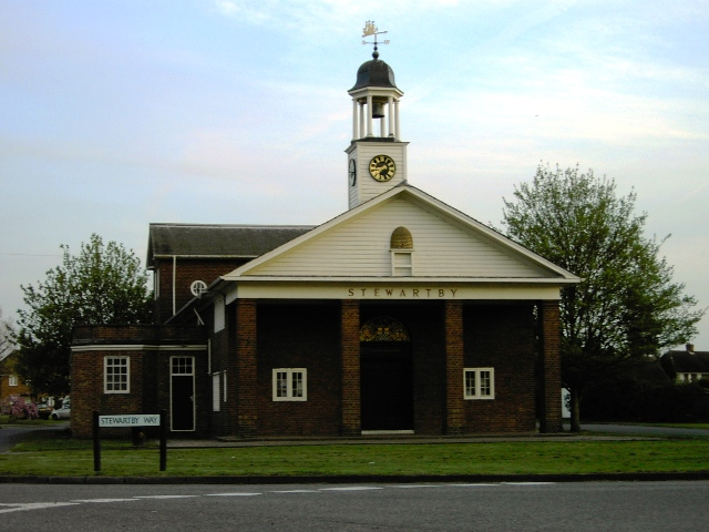 Stewartby Village Centre